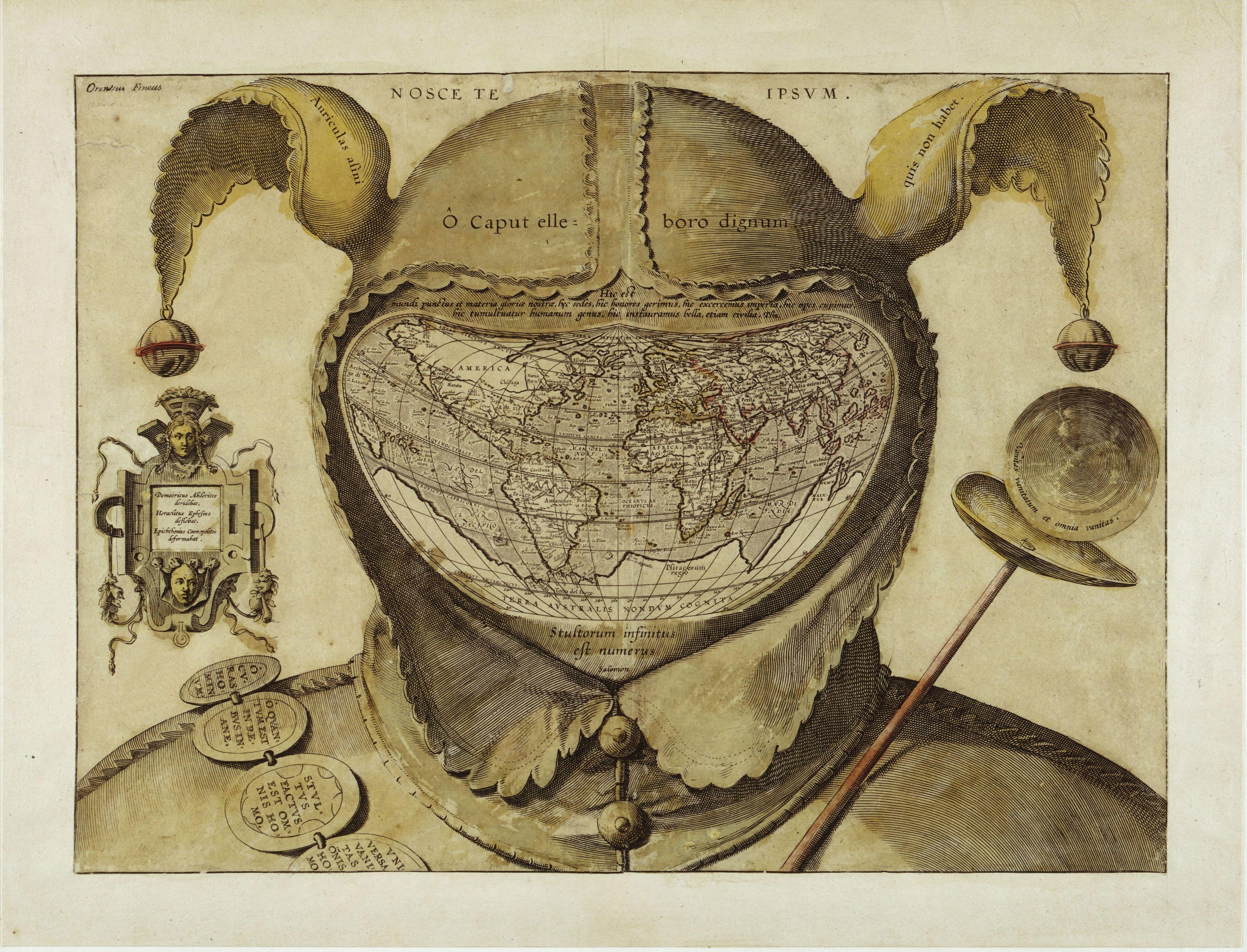 Fool’s Cap Map of the World, “one of the biggest mysteries in the history of western cartography”. (see source)